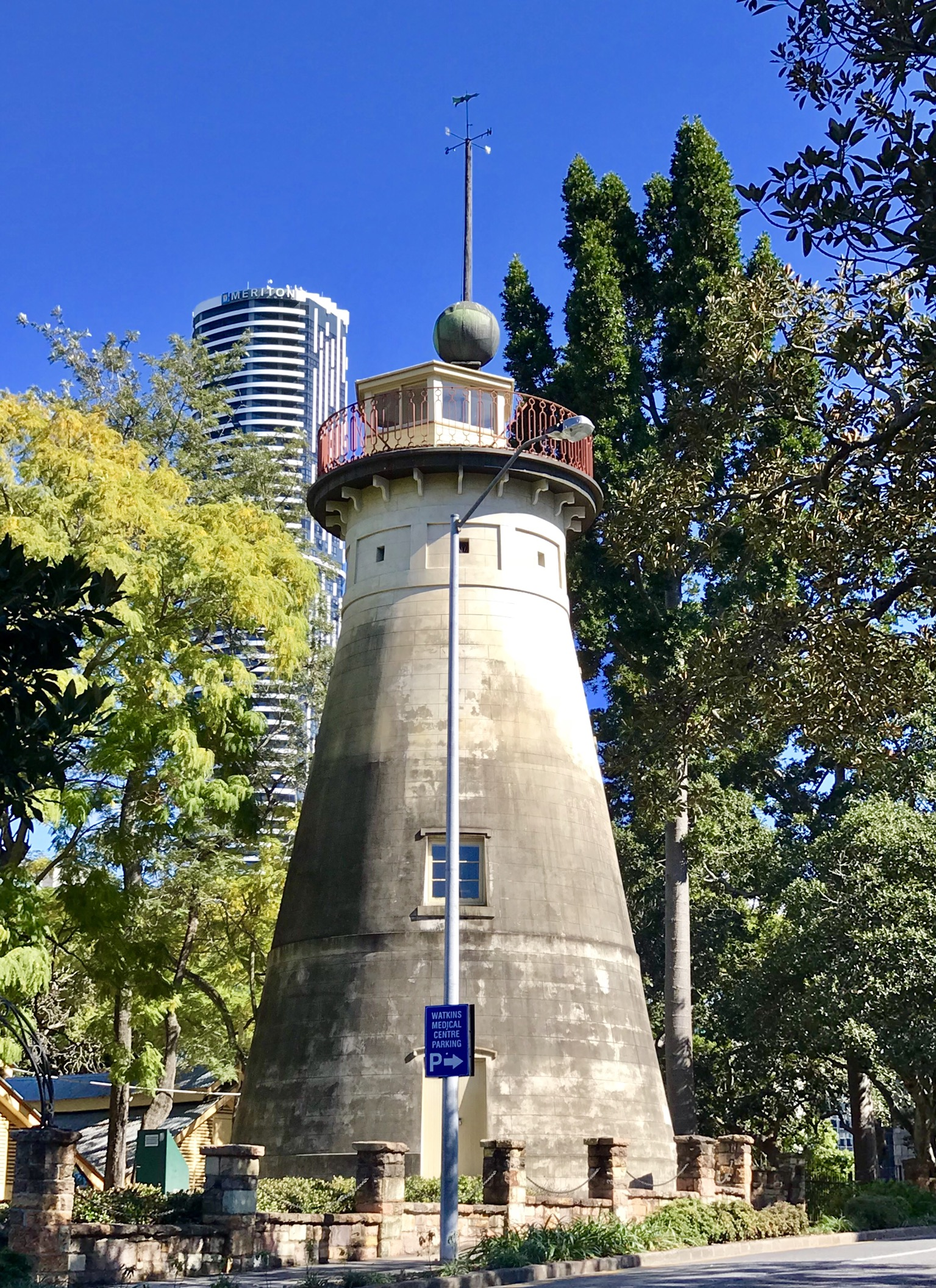 The Old Windmill, Wickham Terrace, Brisbane